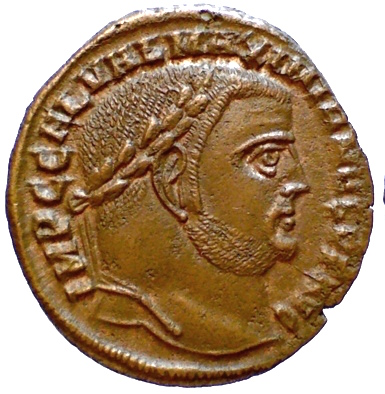 Follis of Galerius - RIC Alexandria 79